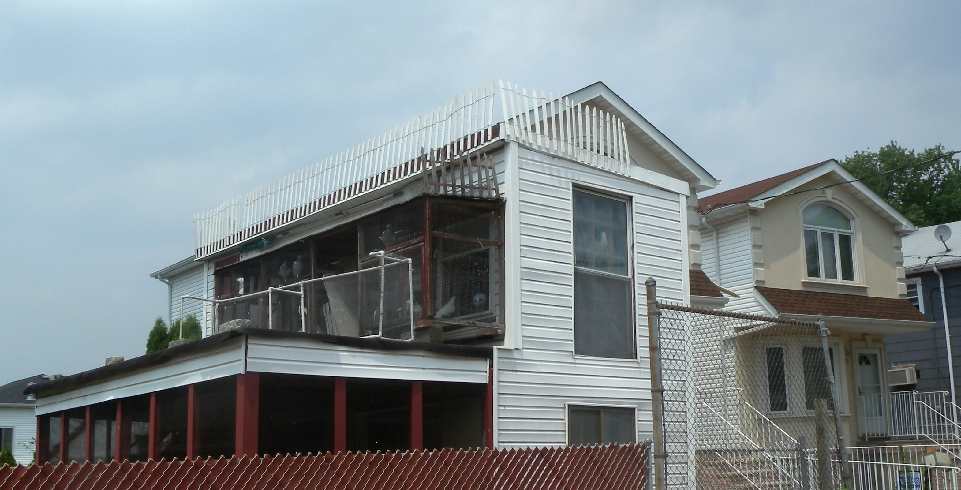 Looking northeast from Clifton Avenue at rooftop racing pigeon loft, probably belonging to Titus Reinhart, east of Tompkins Avenue in Rosebank, on a cloudy midday.